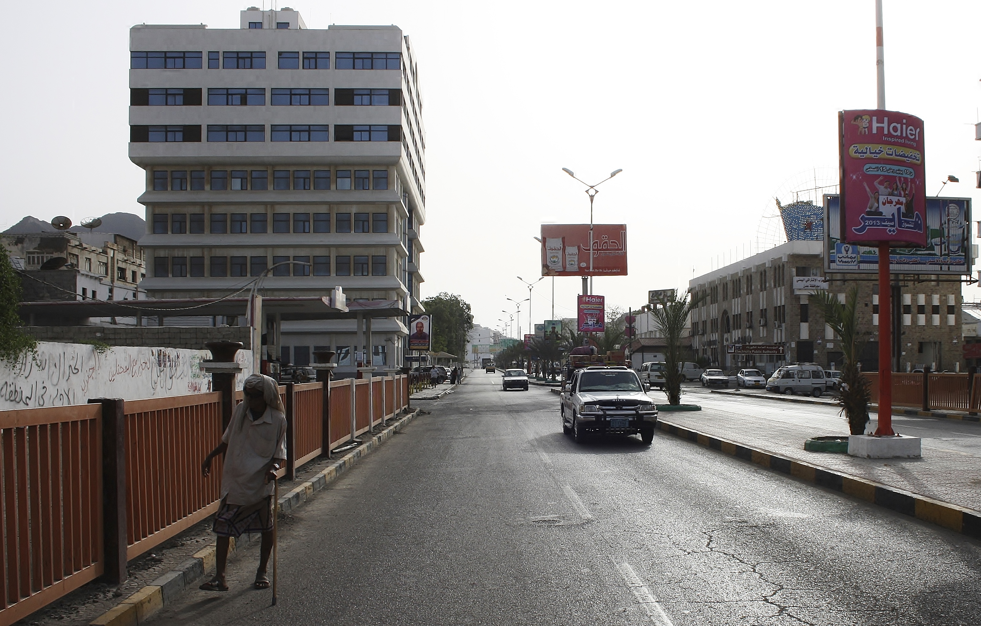 Leaving behind 'Maala Straight' and on the way to Khormaksar.